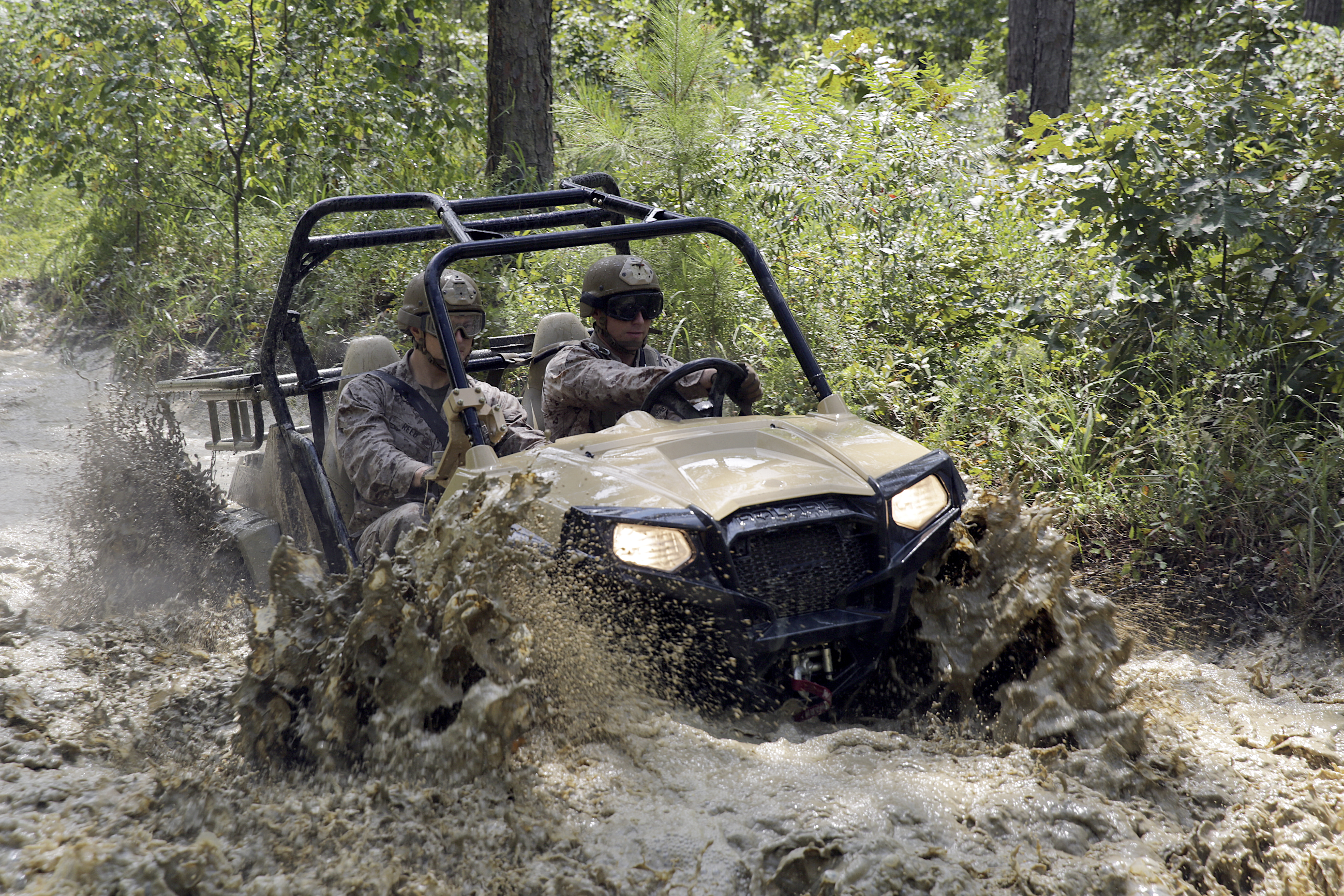 A Marine with Alpha Company, 2nd Reconnaissance Battalion drives a Polaris Razor through a mud-hole in the woods during a basic recreational off-highway vehicle training qualification course on Camp Lejeune, N.C., Sept. 1, 2015. The course is designed to introduce Marines to the two-seater all-terrain vehicle, and familiarize them to its capabilities and safety consideration. (U.S. Marine Corps photo by Cpl. Alexander Mitchell/released) Unit: II Marine Expeditionary Force